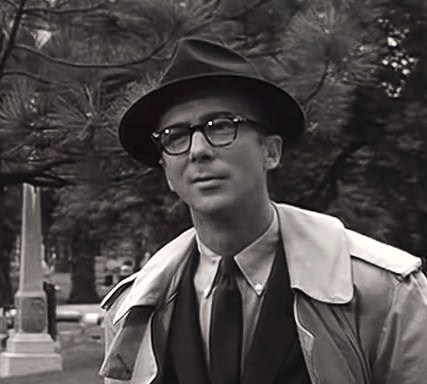 Herbert Anderson in I Bury the Living - cropped screenshot